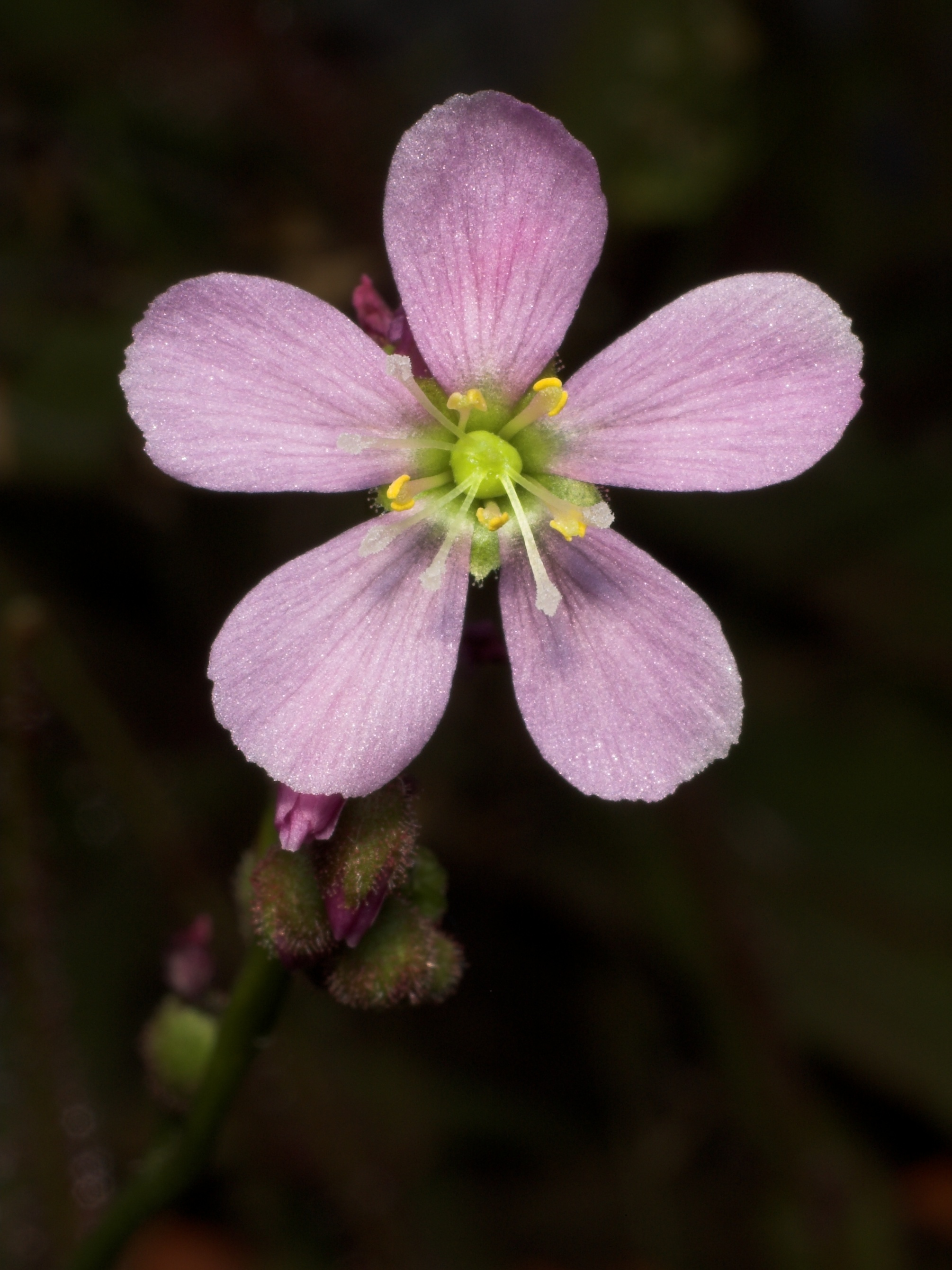 Drosera filiformis